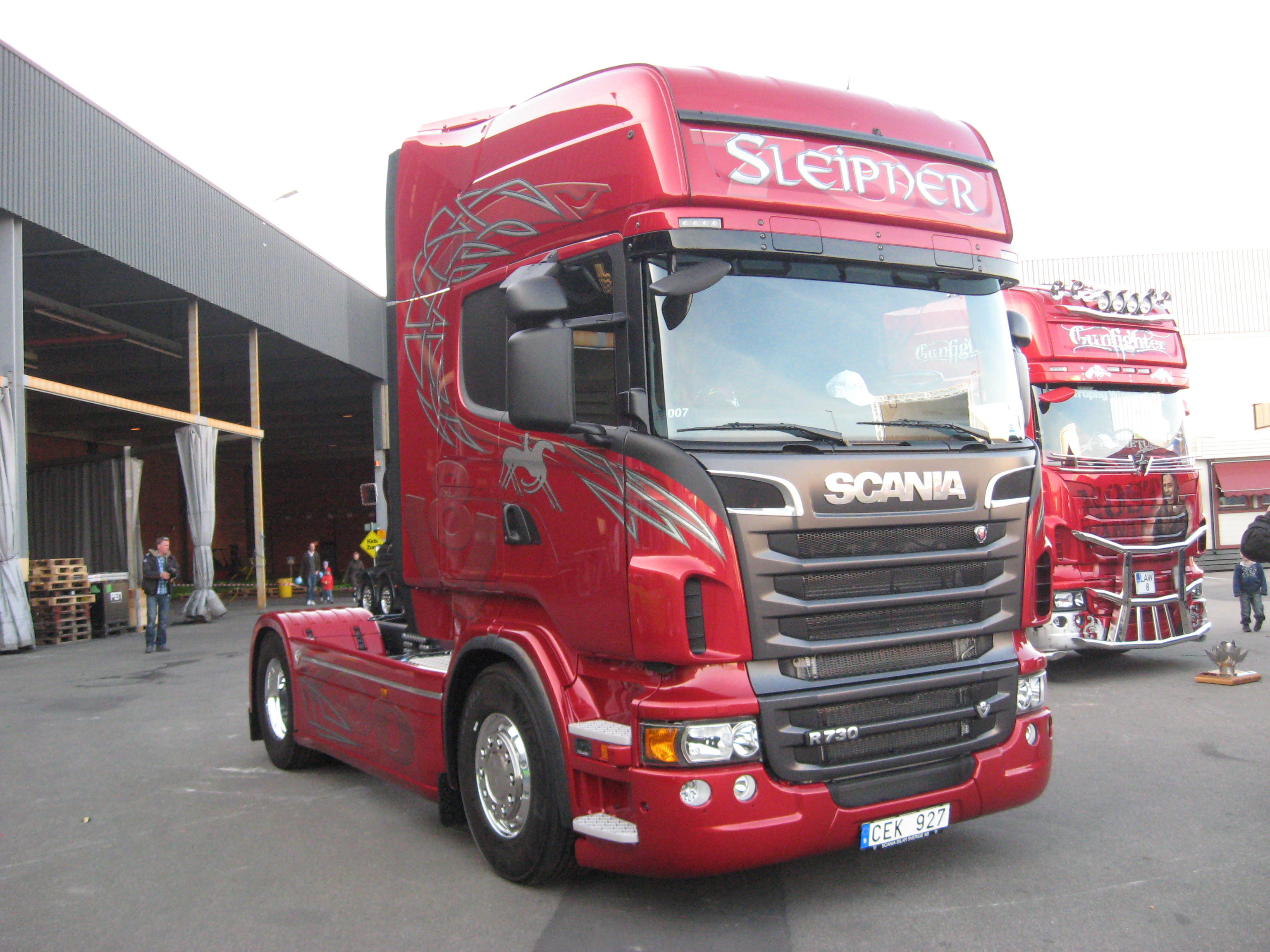 Custom painted Scania R730 truck.